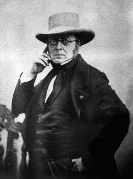 Portrait photo of the psychiatrist Joseph Guislain